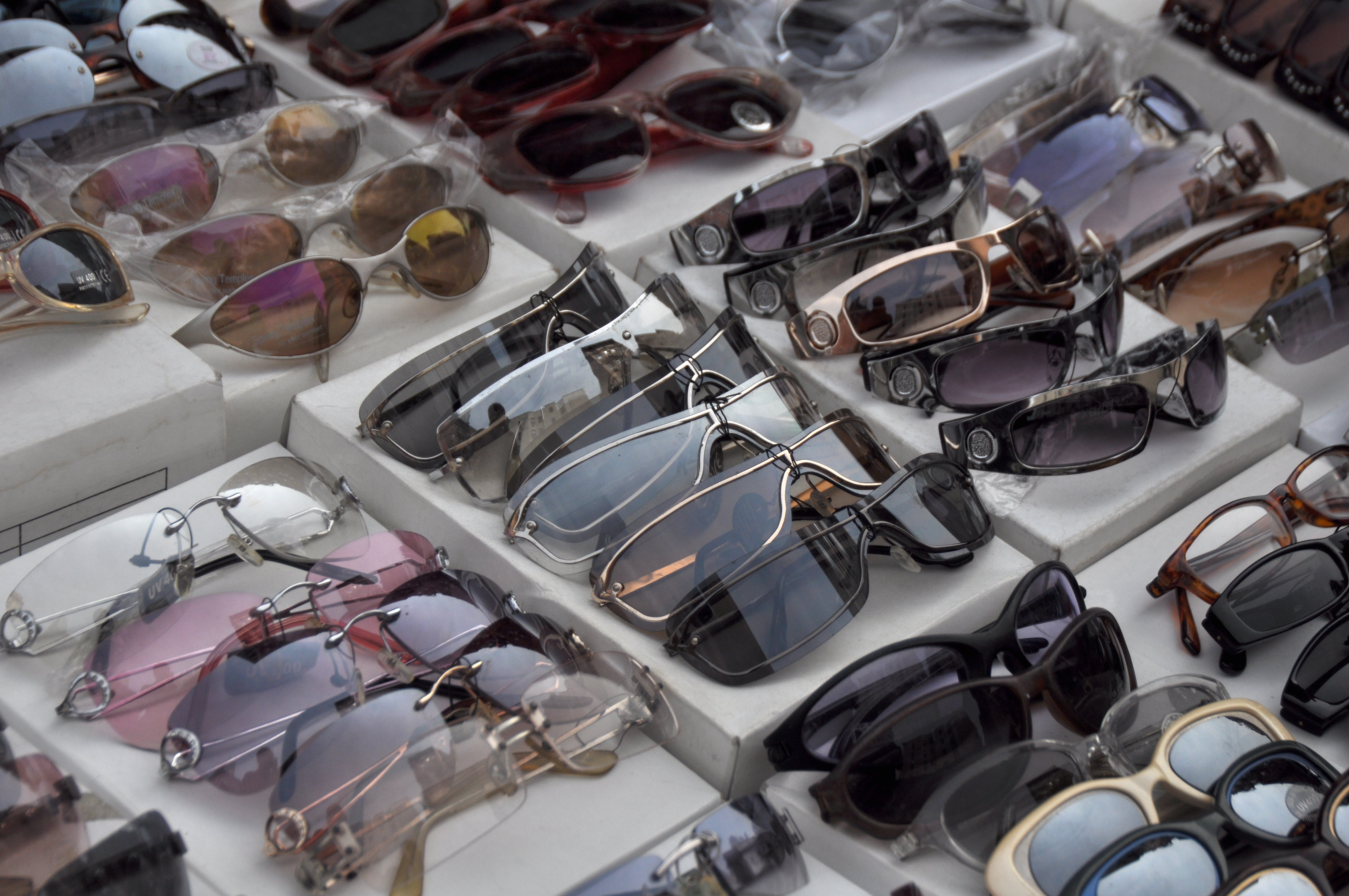 A range of sunglasses with different lense colors, for sale in Manhattan, NY